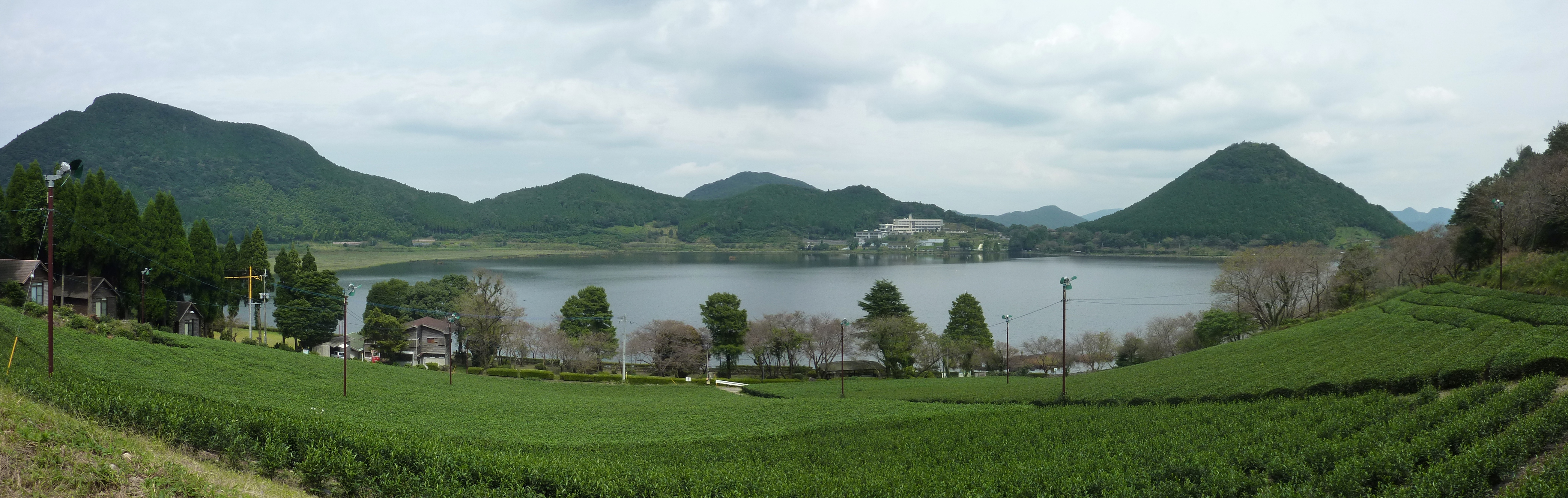 Lake Imuta-ike (Kedoin-cho Imuta, Satsumasendai City, Kagoshima Prefecture, Japan)